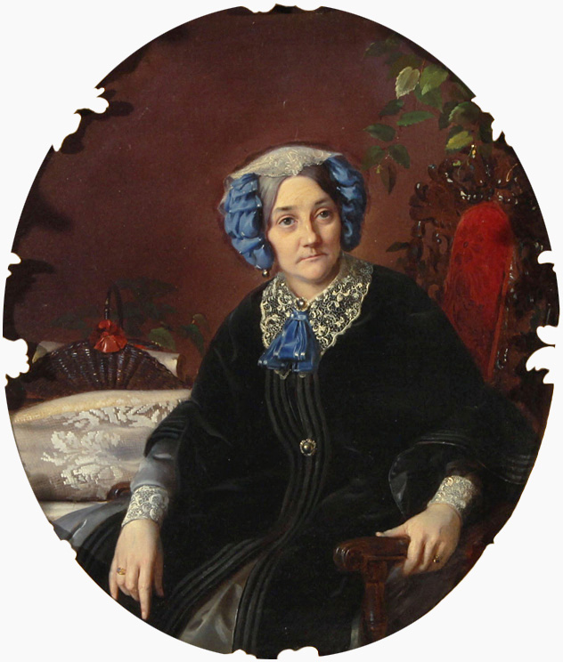 SERGEI KONSTANTINOVICH ZARIANKO (RUSSIAN 1818-1870) Portrait of Princess Isabella Adamovna Gagarina, late 1850s oil on canvas oval, 58.2 x 50.2 cm (23 x 19 1/4 in.) bears Cyrillic inscription on stretcher S.K. Zaryanko Morzenkova 1848 PROVENANCE: Collection of Prince V. N. Gagarin, Moscow, before 1917; Khudozhestvenii Salon Mos-cultura, Moscow, no. 495; Sotheby`s New York, April 26, 2006 lot 16 LITERATURE: Vremia Sobirat: Russkoe Iskusstvo iz Zarubezhnih Chastnih Kollktsii [Time to Collect: Russian Art from Foreign Private Collections] (Russian Museum, Palace Editions: 2007), p.68 LOT NOTES: In her youth, Princess Isabella Adamovna Gagarina (1800-1886, nйe Countess Valevskaya), was a famed beauty. Married to Chief Chamberlain Prince Sergei Sergeevich Gagarin, the director of the Imperial theaters, and herself a celebrated philanthropist and awardee of the Order of Saint Katherine, 2nd class, Gagarina was a member of the upper echelons of the Russian nobility. Sergei Konstantinovich Zaryanko, having studied under Alexey Gavrilovich Venetsianov, was among the leading portrait painters of the nineteenth century and was even commissioned to paint portraits of the Imperial family for the Winter Palace.